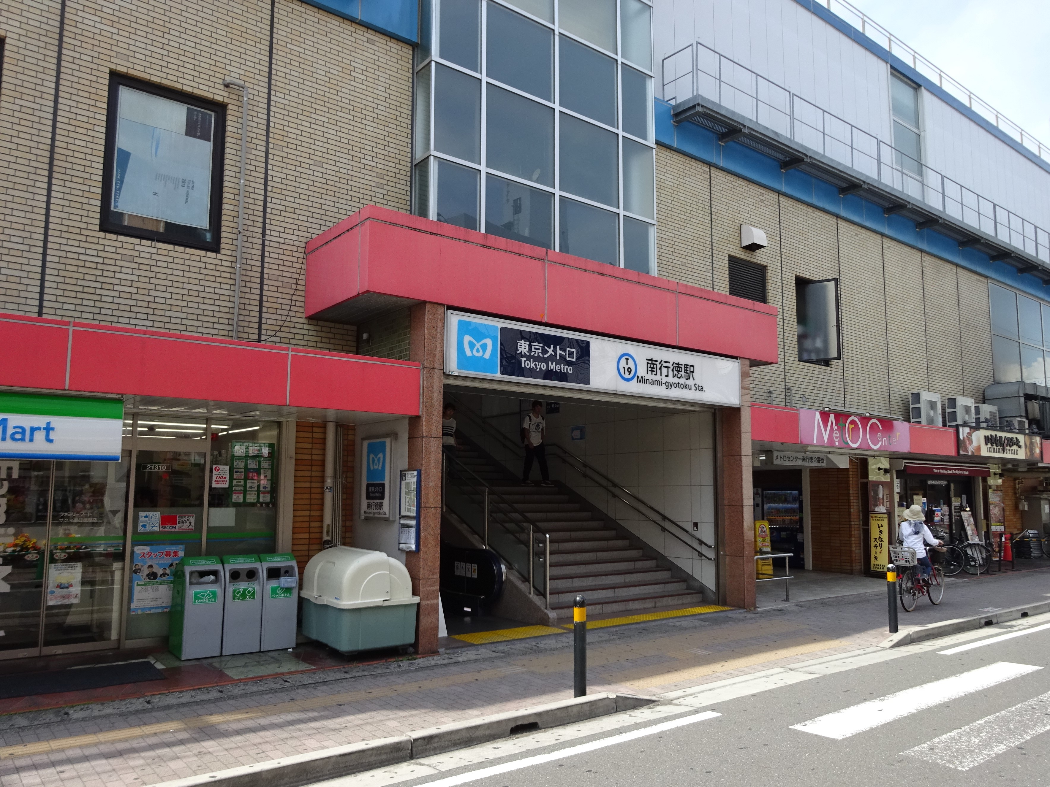 The south entrance to Minami-Gyōtoku Station in Chiba Prefecture, Japan